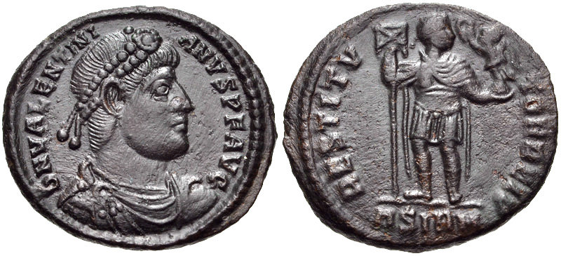 Valentinian I. AD 364-375. Æ Follis (19mm, 3.45 g, 12h). Sirmium mint, 1st officina. Struck 25 February-December AD 364. DN VALENTINI-ANUS PF AUG, Diademed, draped, and cuirassed bust right RESTITU-TOR [...], Valentinian standing facing, head right, holding victoriola and labarum; ASIRM. RIC IX 6a.1; LRBC 1627. EF, dark green patina, a few minor marks.